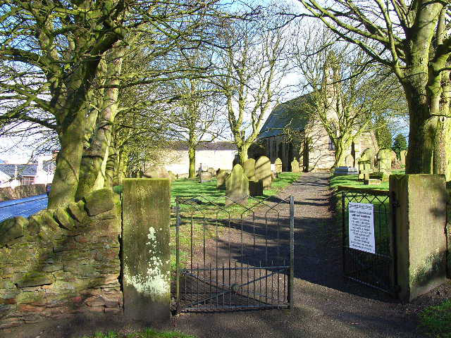 Parish church of St Michael and All Angels, Esh, County Durham, seen from the west